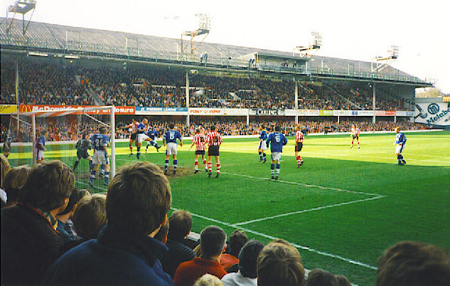 Inside The Dell. Saints draw 0-0 again! Against Leicester City.